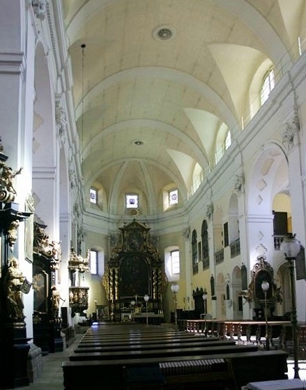 Interior of Saint Stephen's Cathedral Litomerice